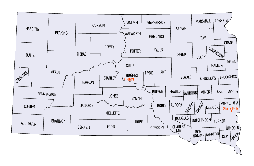 Map showing 66 counties of South Dakota